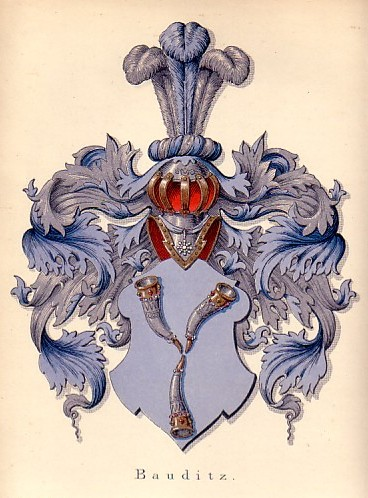 Coat of arms of the Baudissin/Bauditz family.